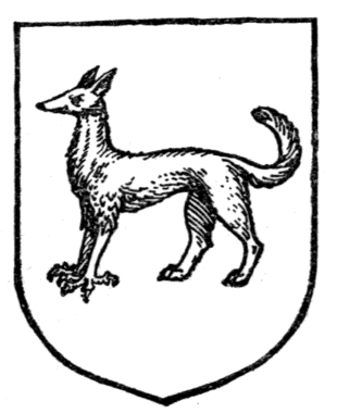 Fig. 438.—Enfield.